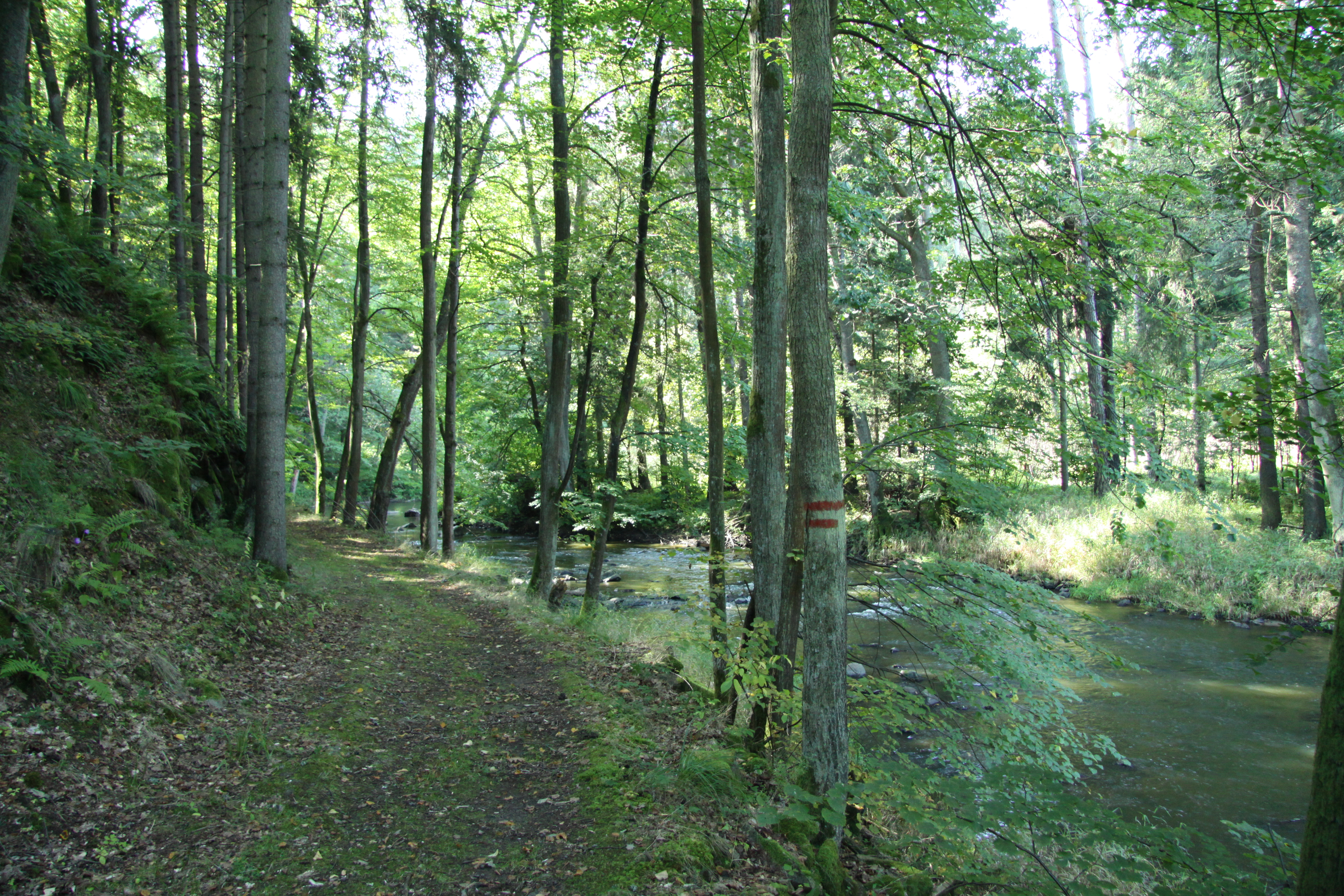 Natural monument V Obouch with Lomnice River in Písek District, Czech Republic.